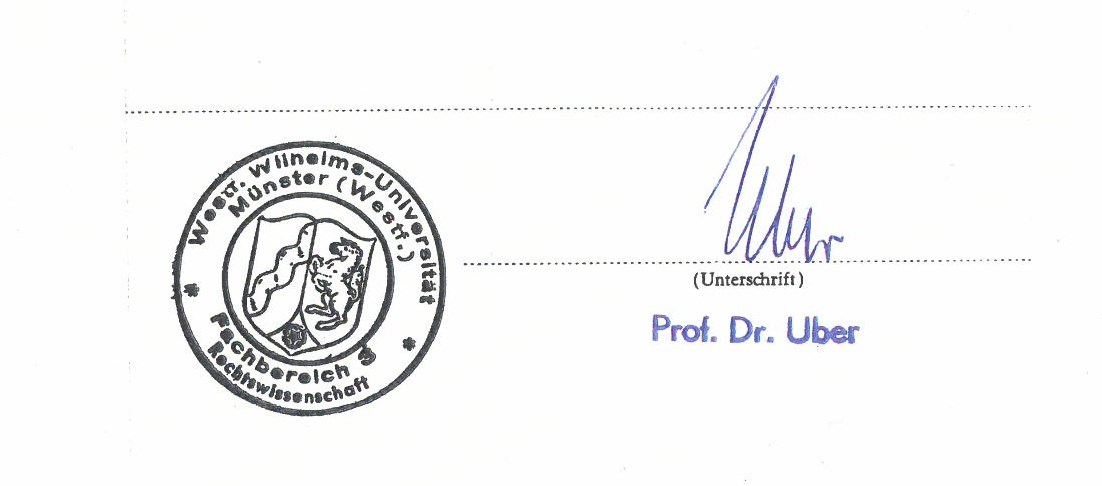 Signature Professor Uber, Münster (Germany)